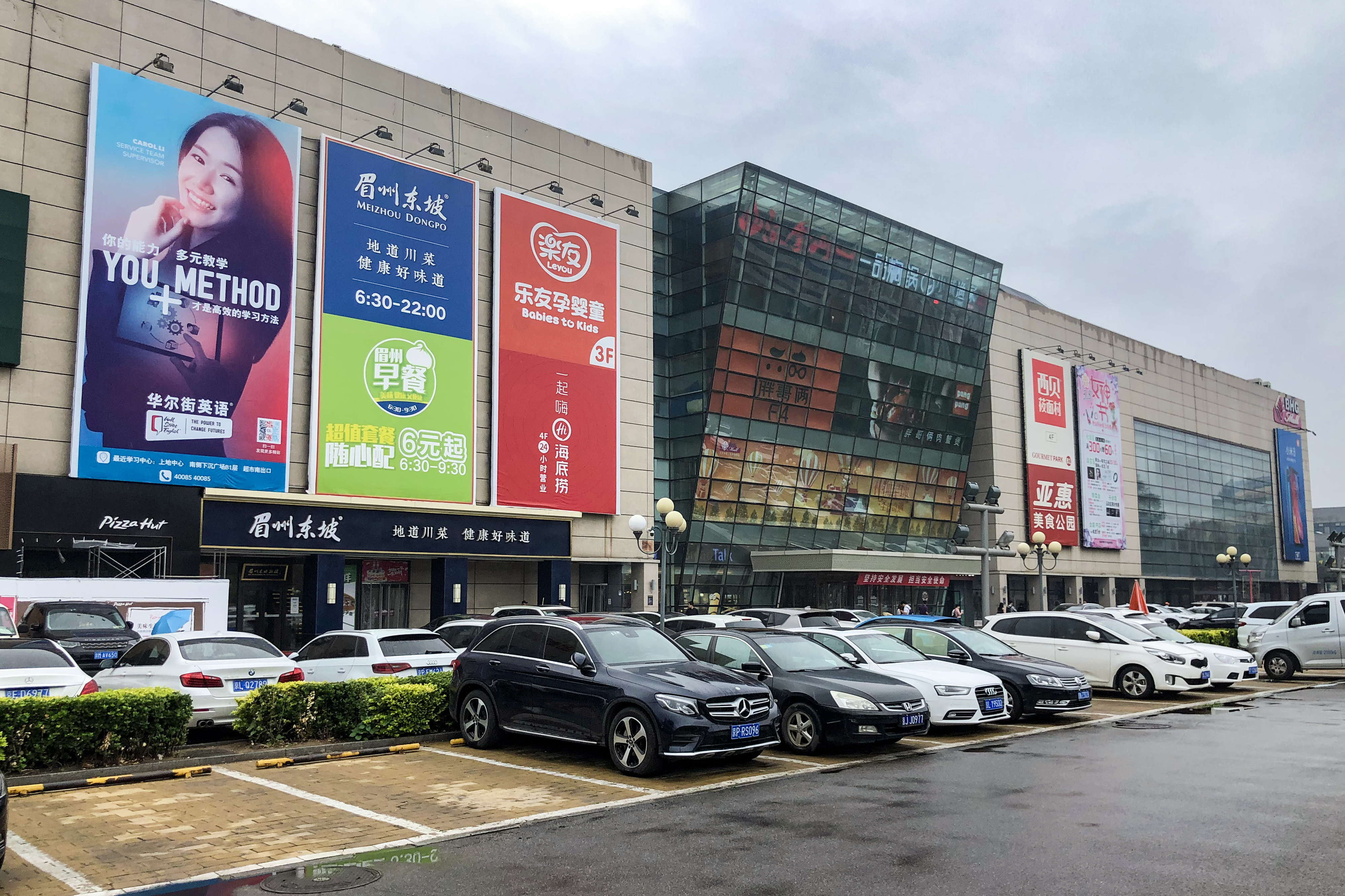 It has been standing there for 11 years...